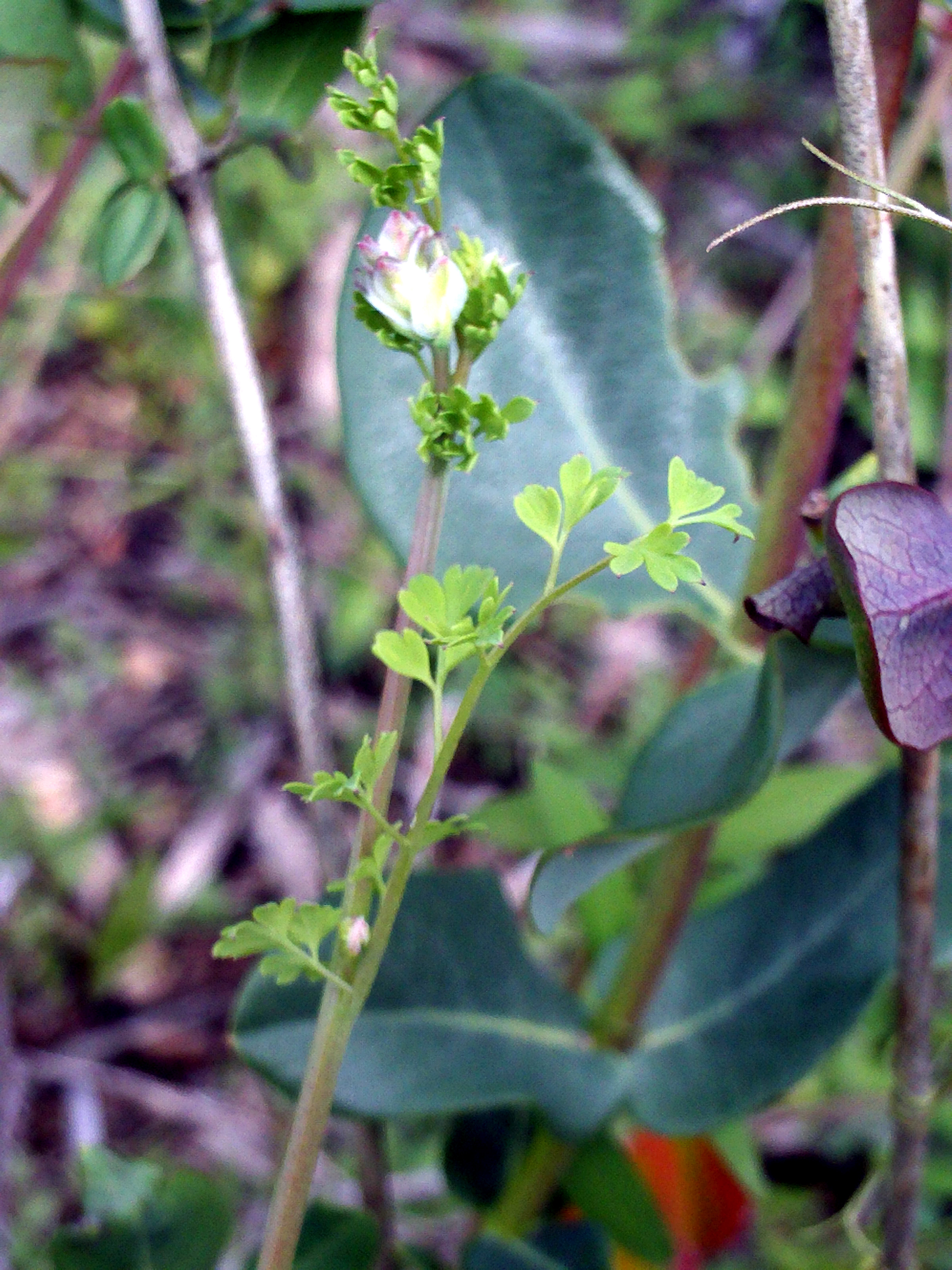 Fumaria muralis Stem and Leaves, Dehesa Boyal de Puertollano, Spain